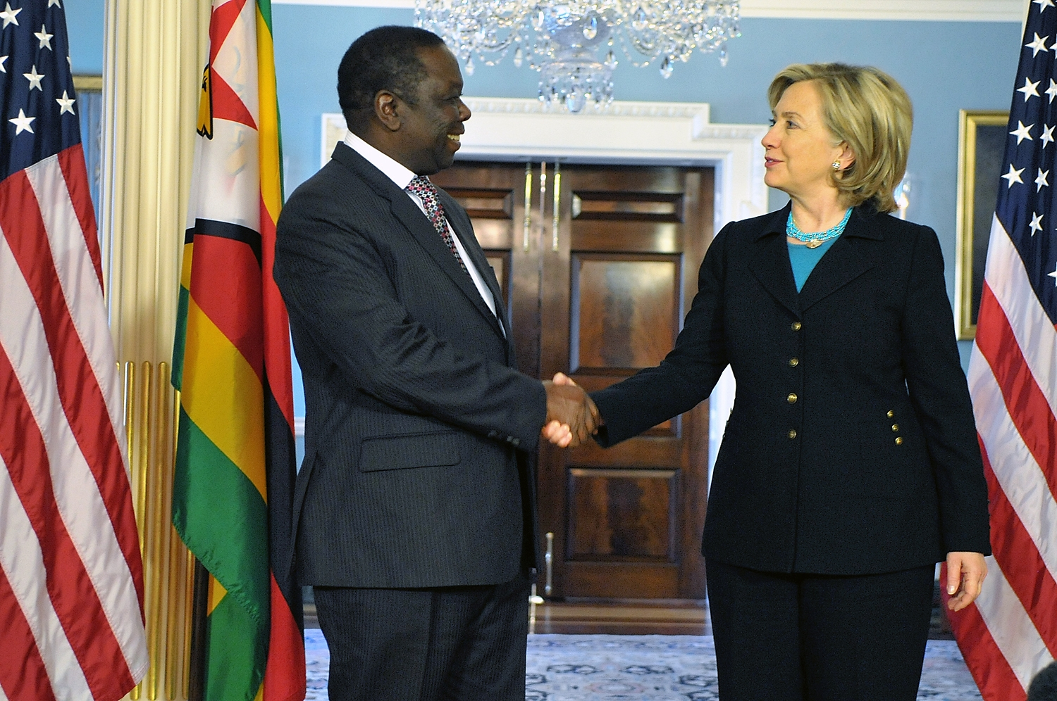 U.S. Secretary of State Hillary Rodham Clinton shakes hands with His Excellency Morgan Tsvangirai, Prime Minister of the Republic of Zimbabwe, after their bilateral meeting at the U.S. Department of State, Washington, D.C., May 10, 2010.